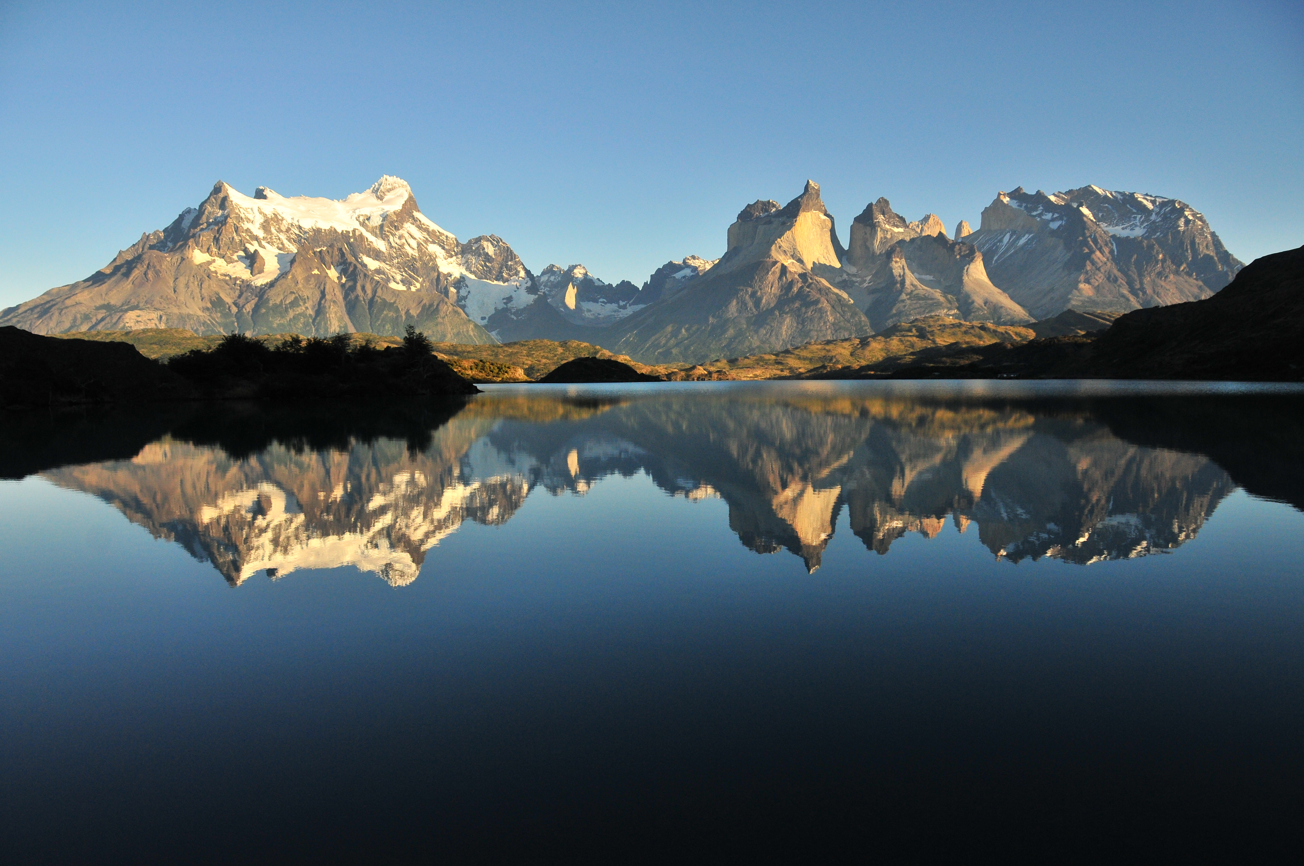 Torres del Paine National Park, Chile. Vista desde el Lago Pehoé